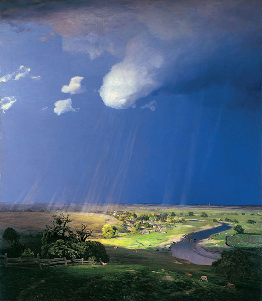 Homeland. 1892. Oil on canvas. 162x143 cm. National Gallery of Art Generations Fund Ugra, Khanty-Mansiysk, Russian Federation